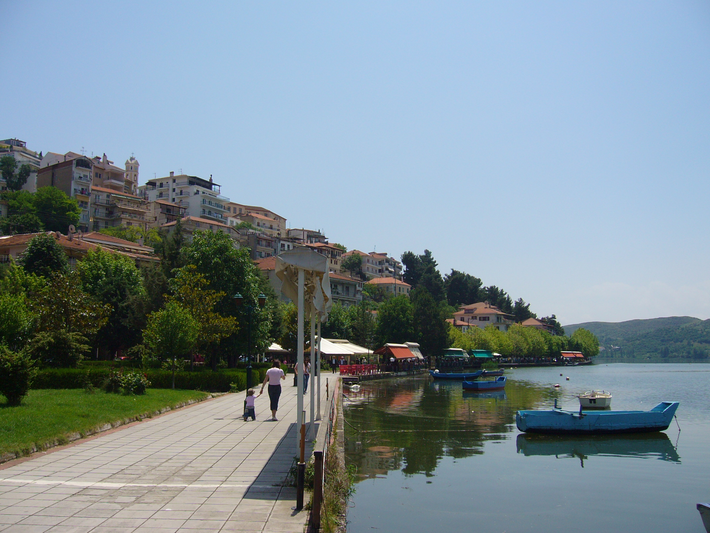 Kastoria, Lake Orestiada, Greece.